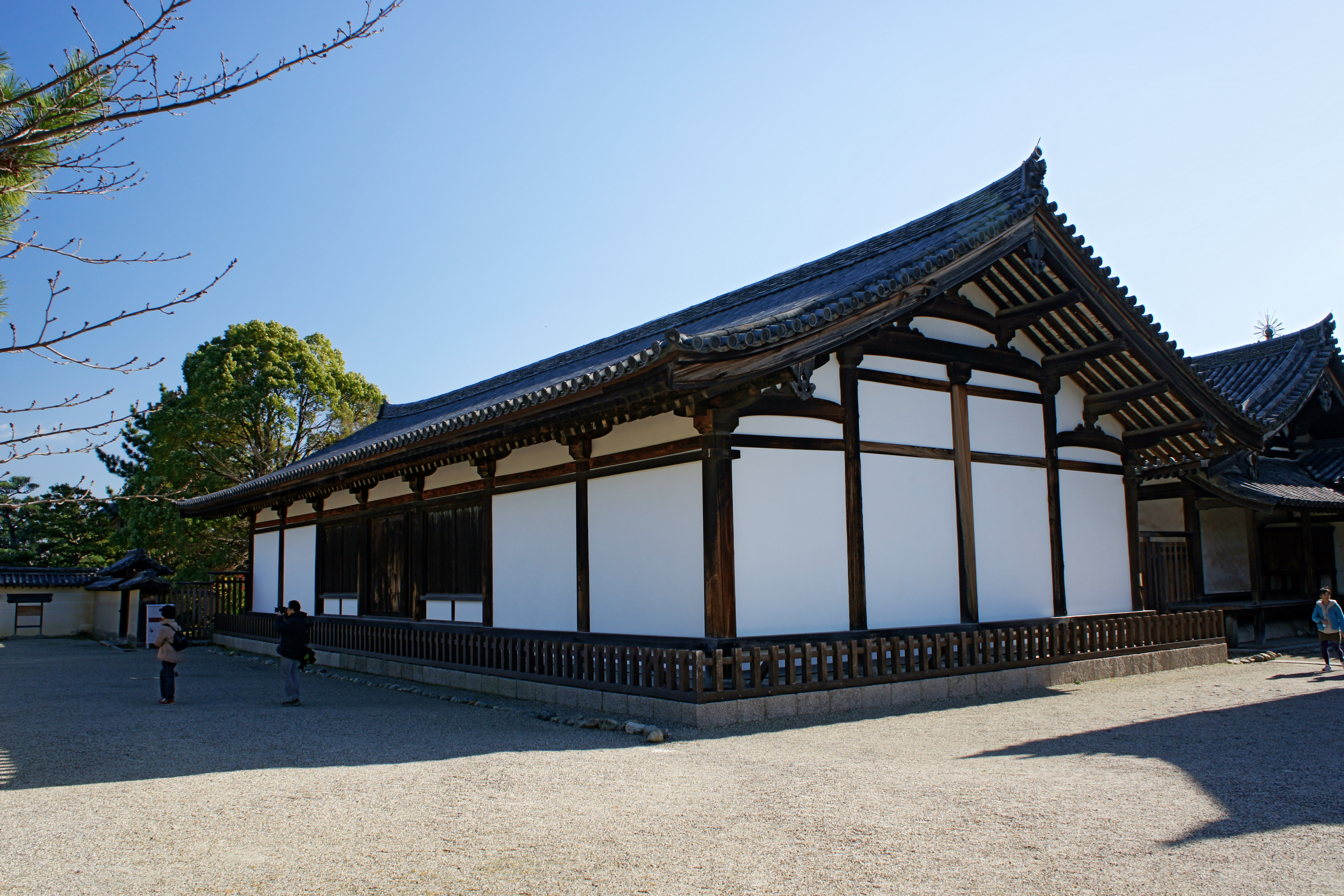 Denpōdō of Hōryū-ji is a Japan's National Treasure. Hōryū-ji is a Buddhist temple in Ikaruga, Nara prefecture, Japan. It was registered as part of the UNESCO World Heritage Site "Buddhist Monuments in the Hōryū-ji Area".